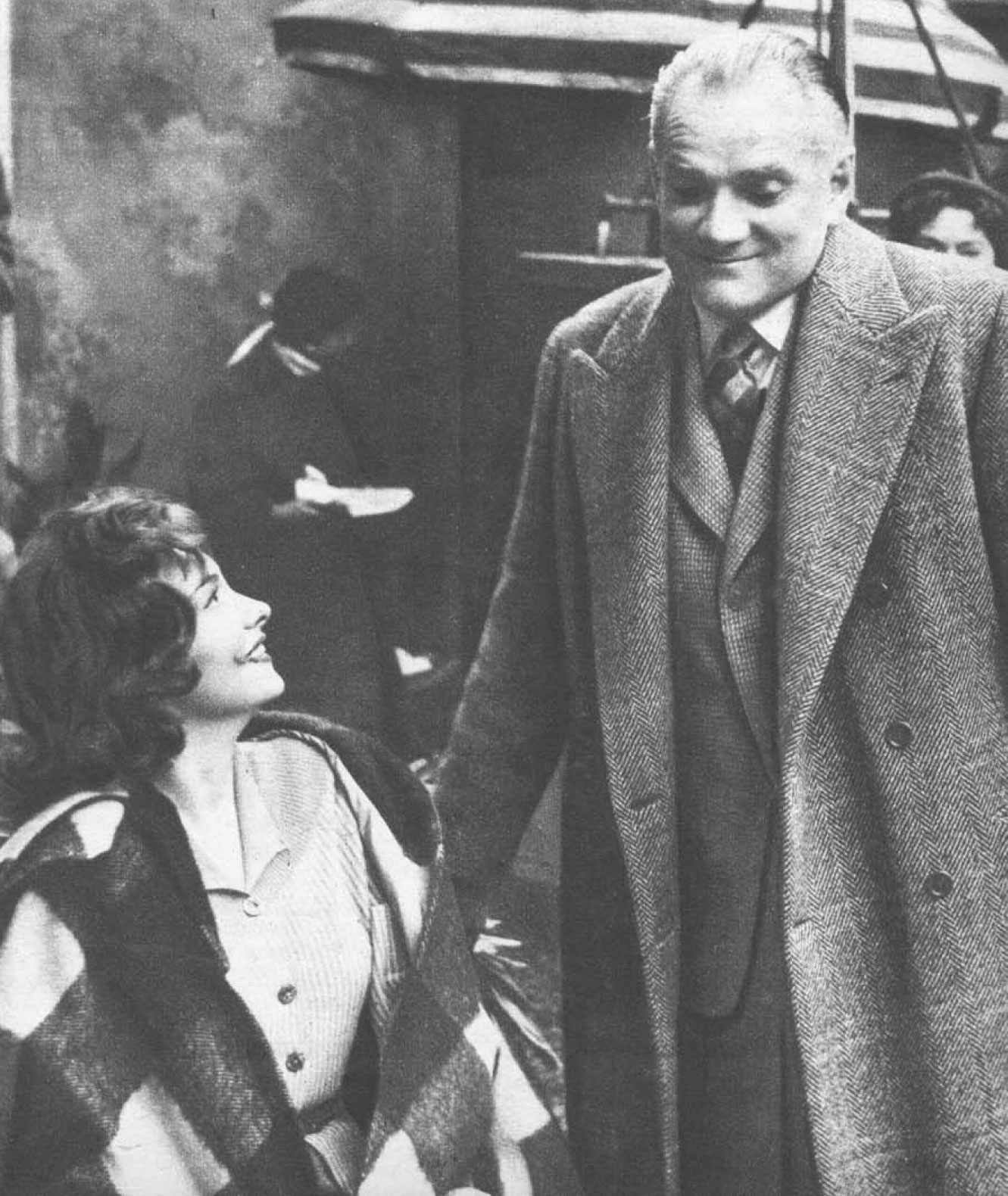 Woman of Rome (1954)